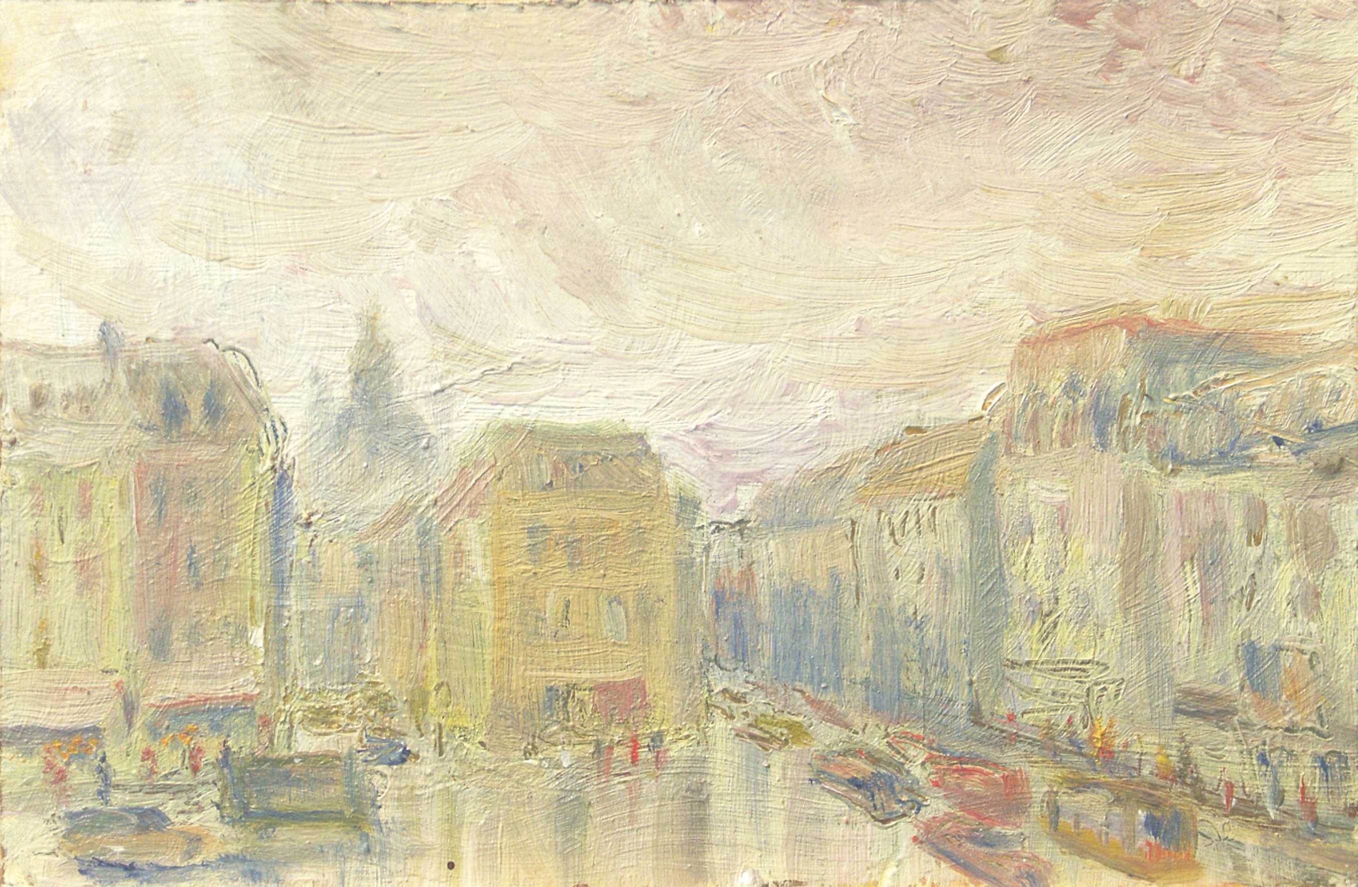 M. Schultz. Foggy Paris. 1976. Oil